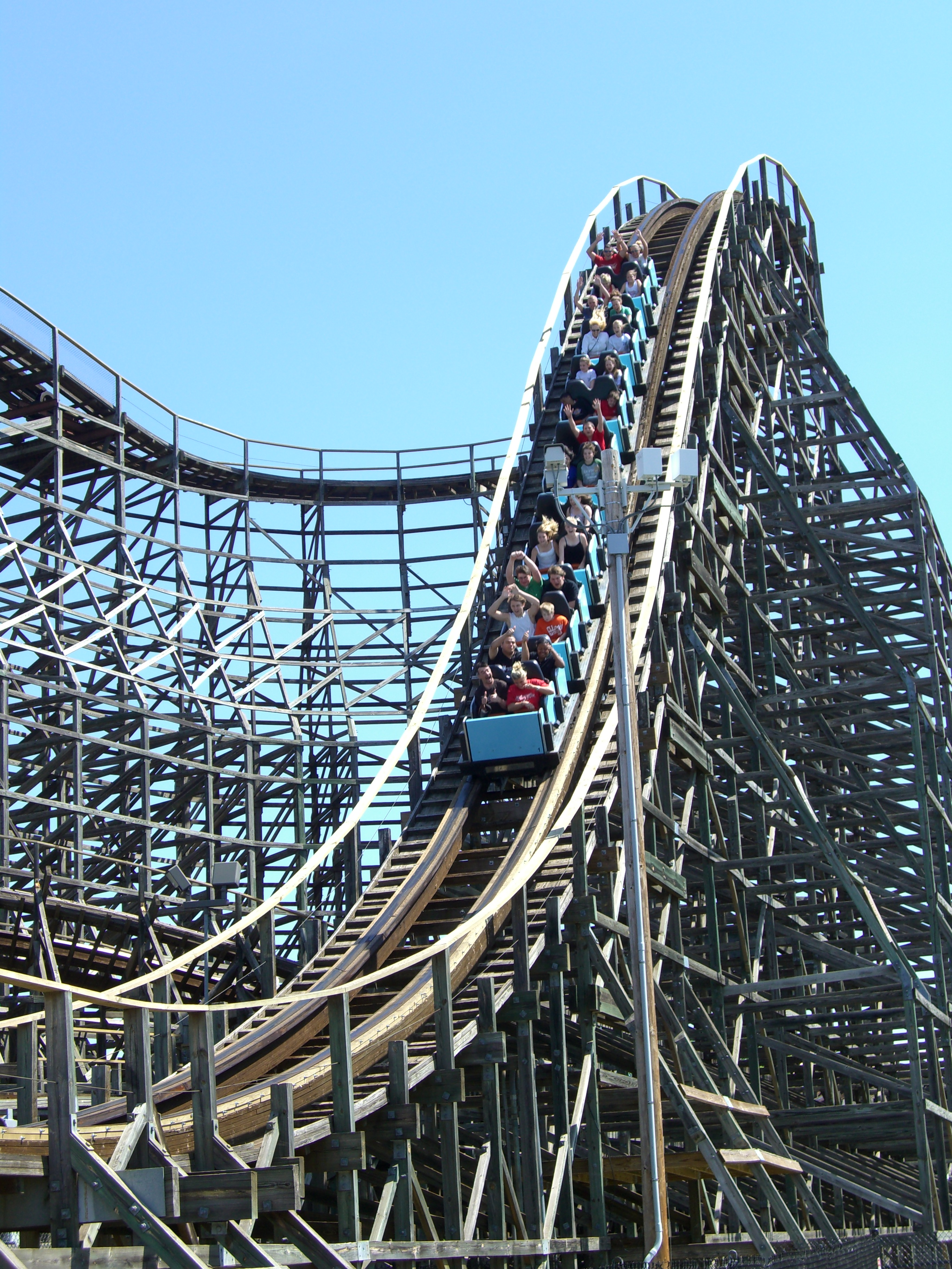 Hurler's first drop at Carowinds. The only requirement of this license is that you give me credit, otherwise the image is free.